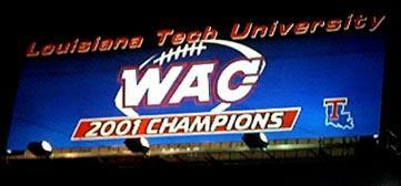 Louisiana Tech 1001 WAC football champions billboard on Interstate 20 in Ruston, Louisiana.